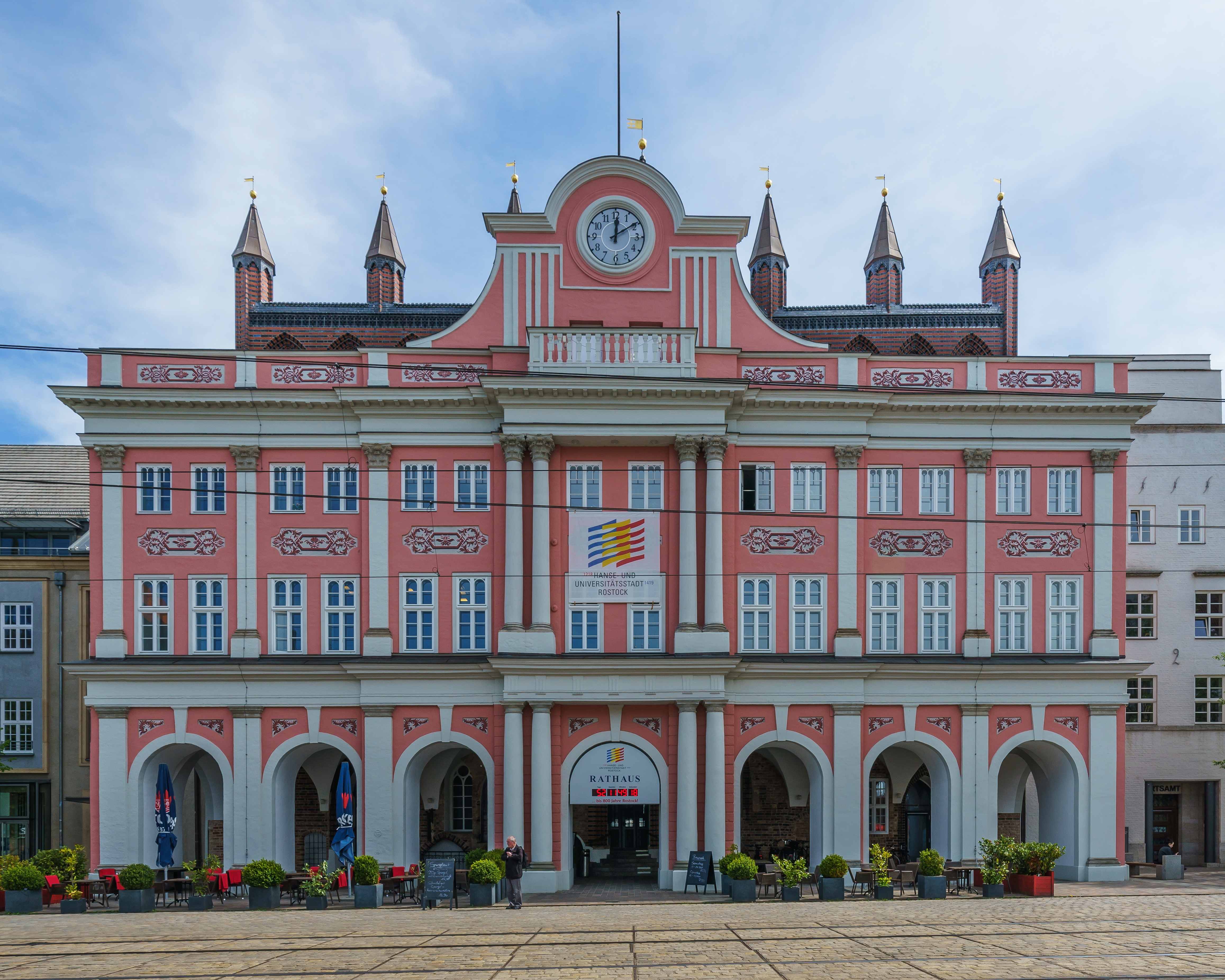 Town hall in Rostock, Germany